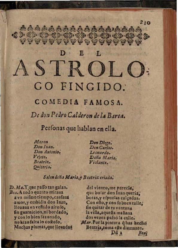 Title page of Pedro Calderón de la Barca's Astrologo Fingido, Madrid, 1641. Printed by Carlos Sanchez for Antonio de Ribero.